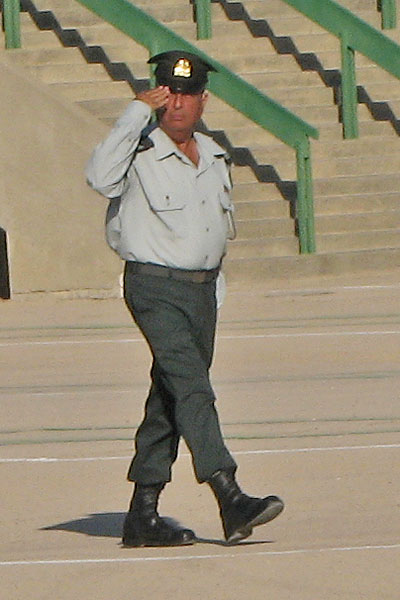 IDF Chief Warrant Officer (Rav Nagad) Ytzchak Taito